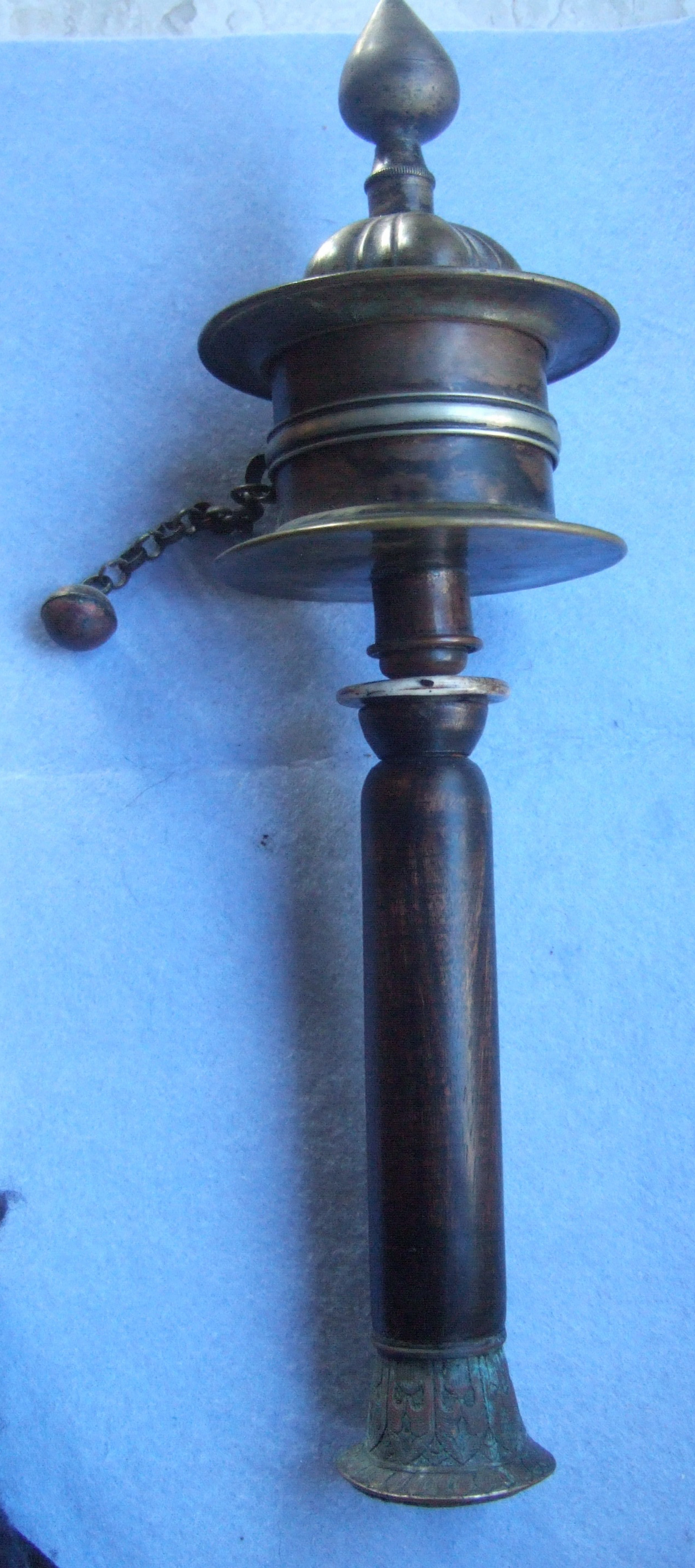 Tibetan hand prayer wheel (mani lag 'khor), early 20th century